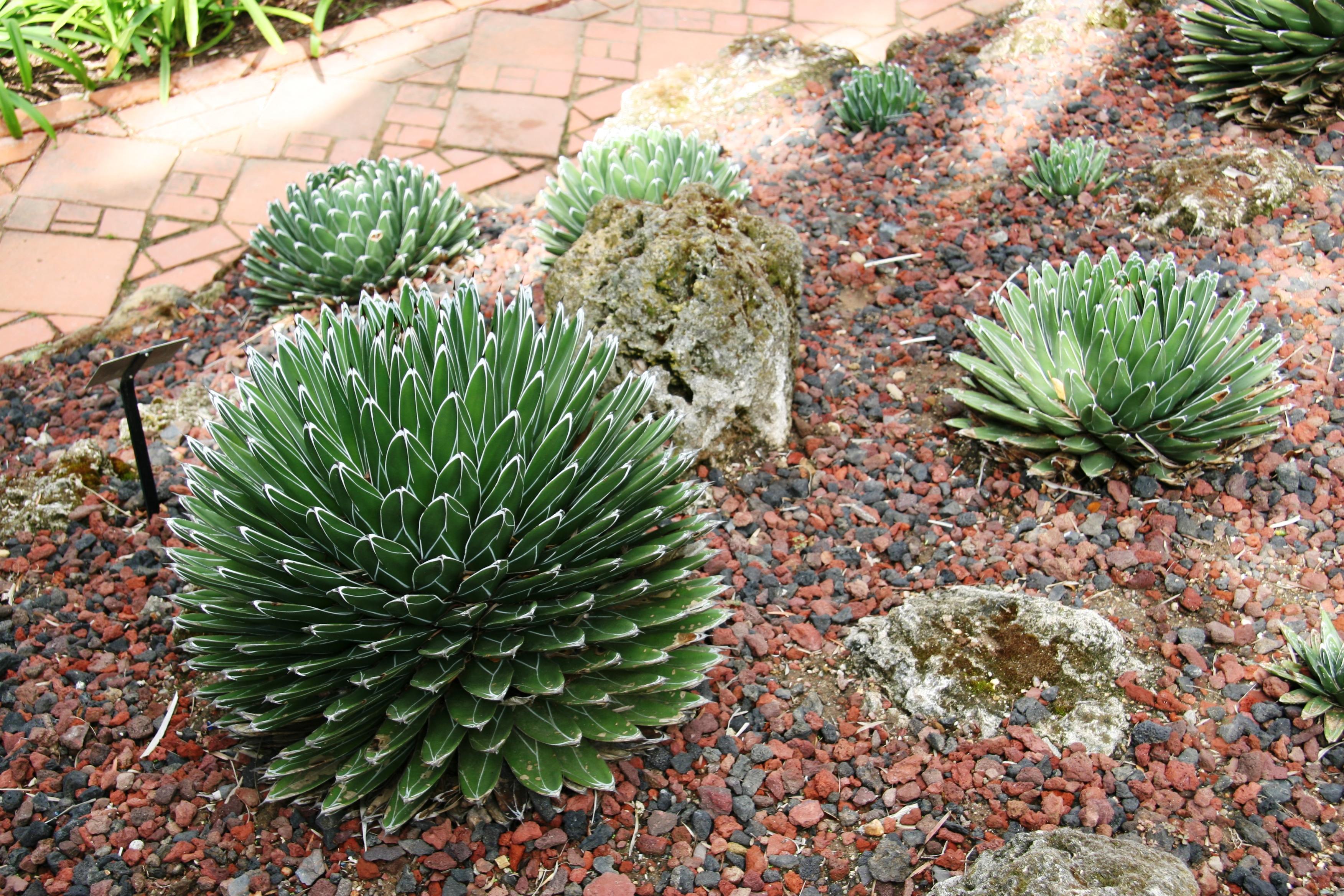 Agave victoriae-reginae in garden setting. Photographed at historic Lotusland, in Santa Barbara, California